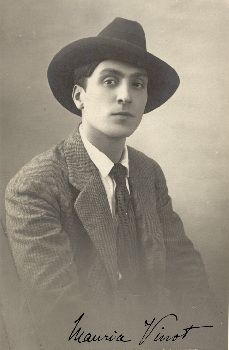 1916 or earlier image of French film actor Maurice Vinot (1888-1916).